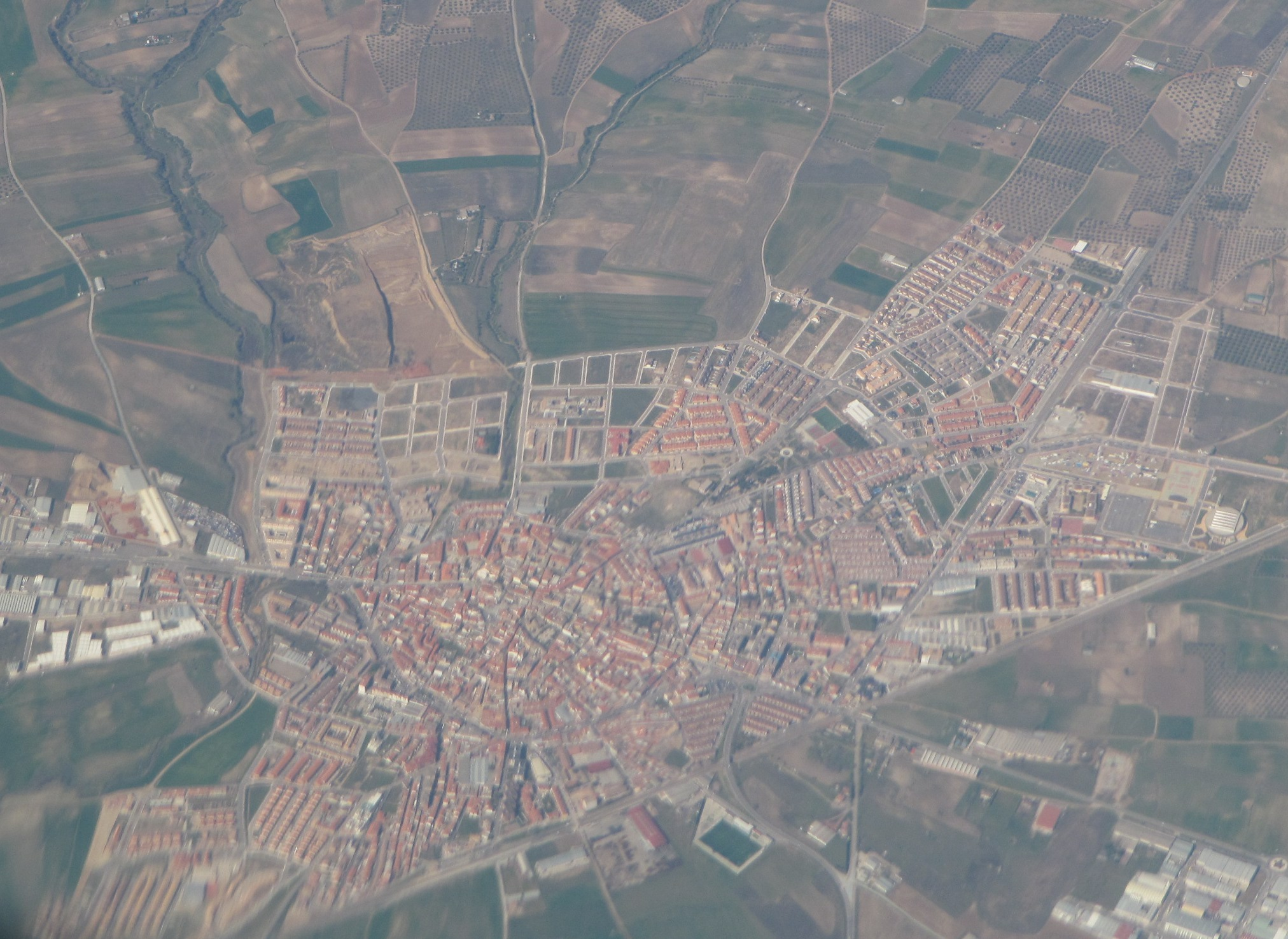 Illescas